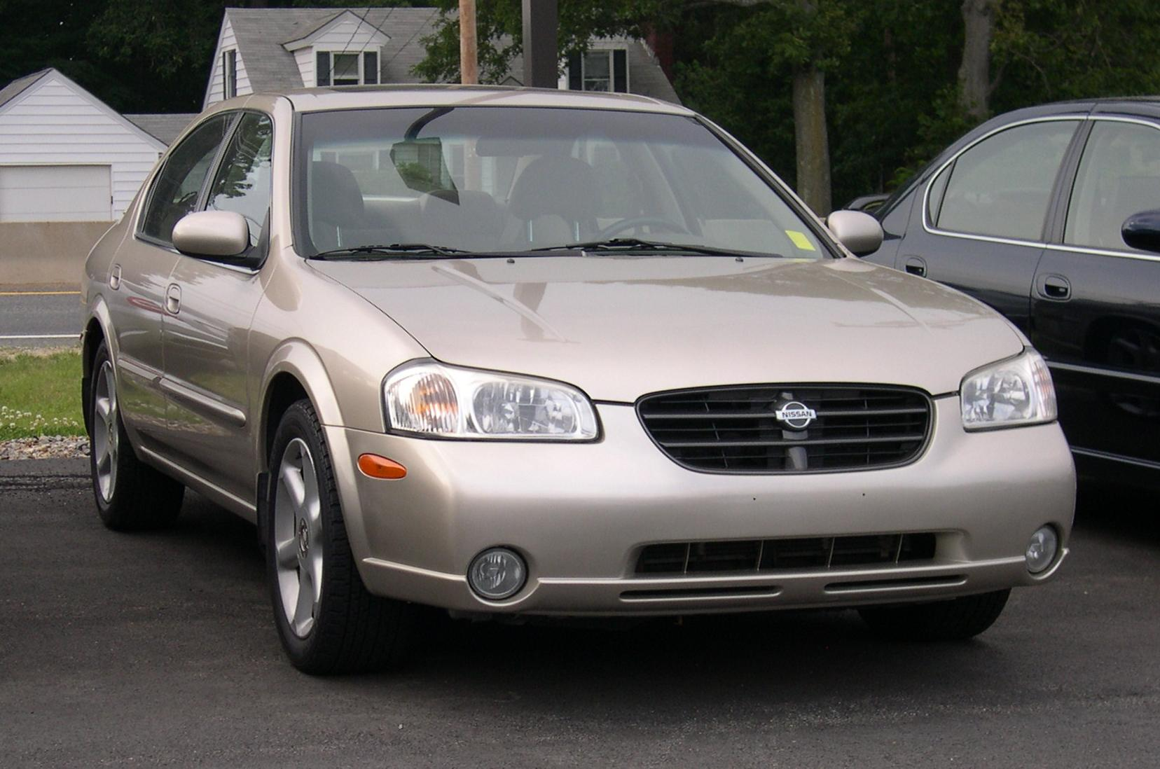 2001 Nissan Maxima GXE Source: Photo by User:Sfoskett